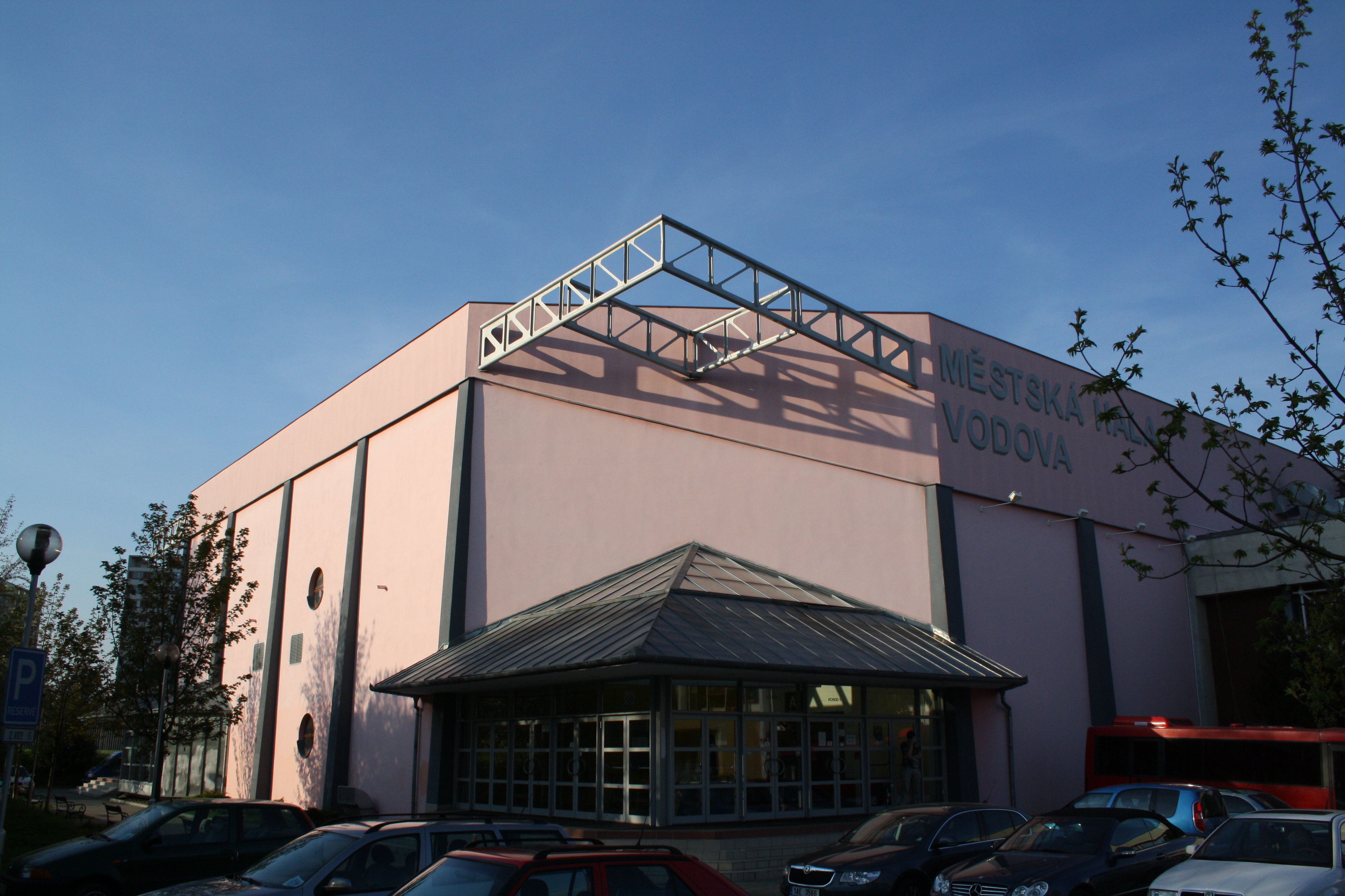 Overview of City Gym Vodova.